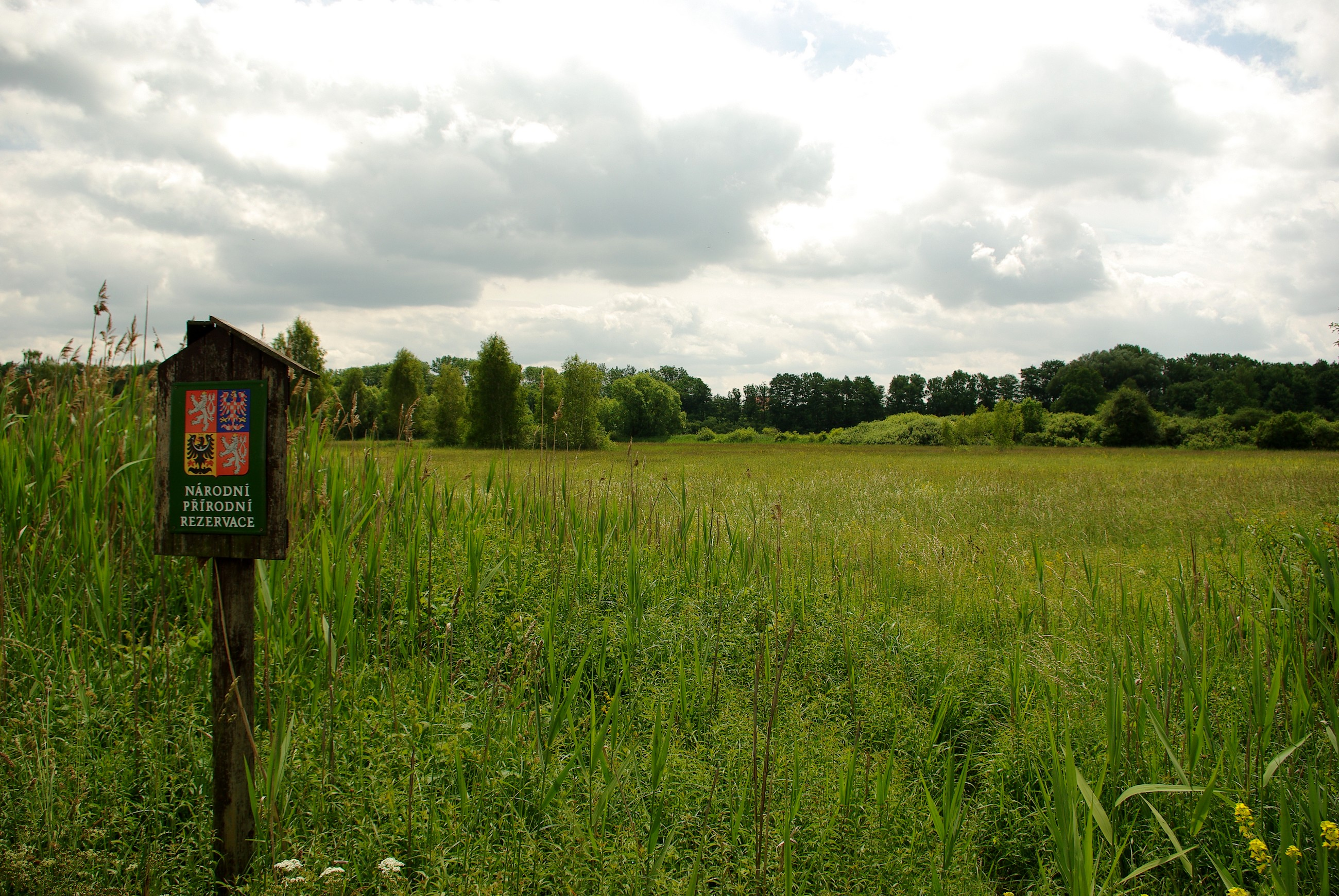 National natural monument Polabská černava in Mělník District, Czech Republic